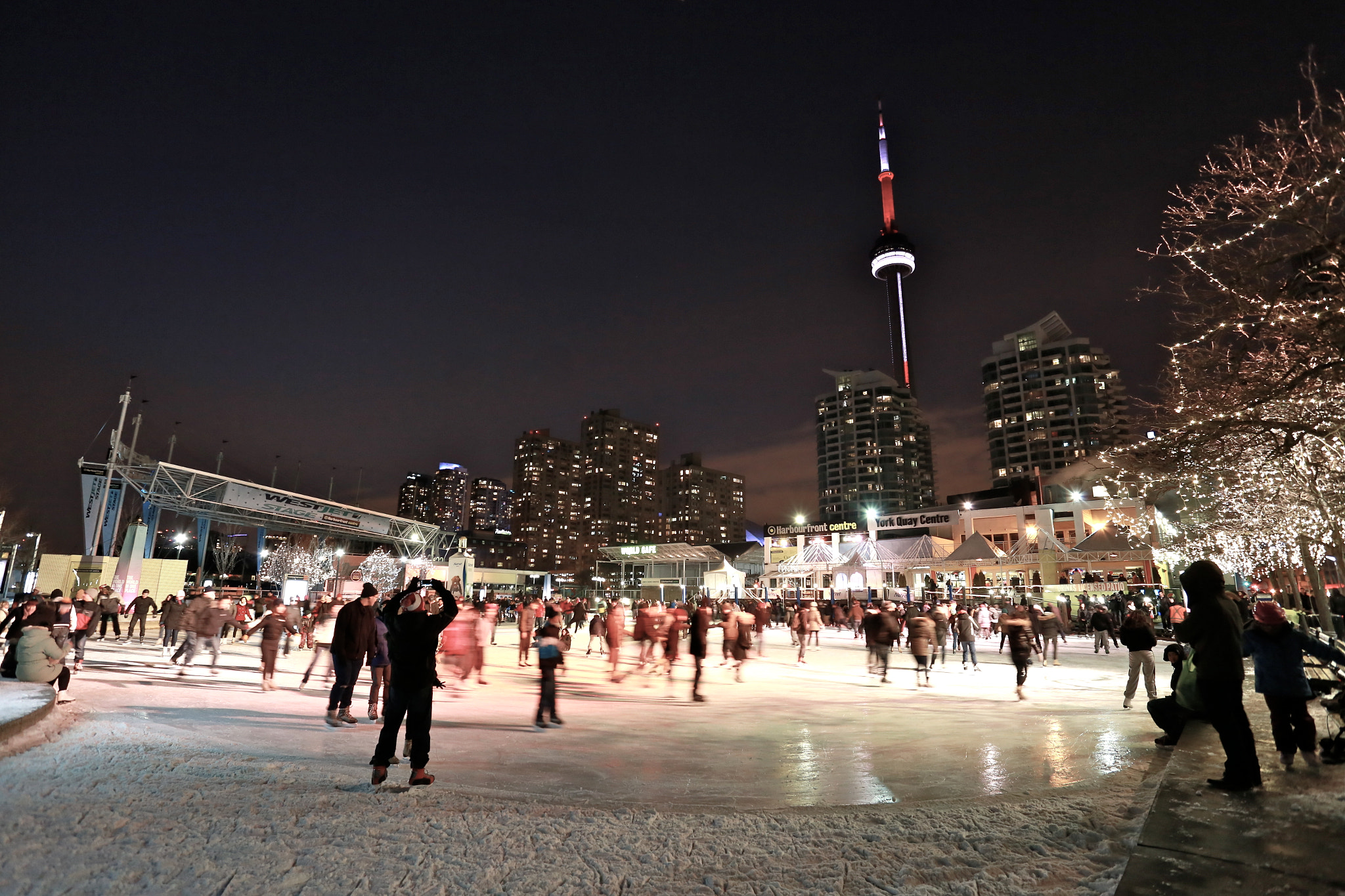 500px provided description: took the time to present what you like [#winter ,#people ,#cold ,#night ,#life ,#snow ,#fun ,#sport ,#canon ,#skiing ,#harbourfront ,#Toronto]